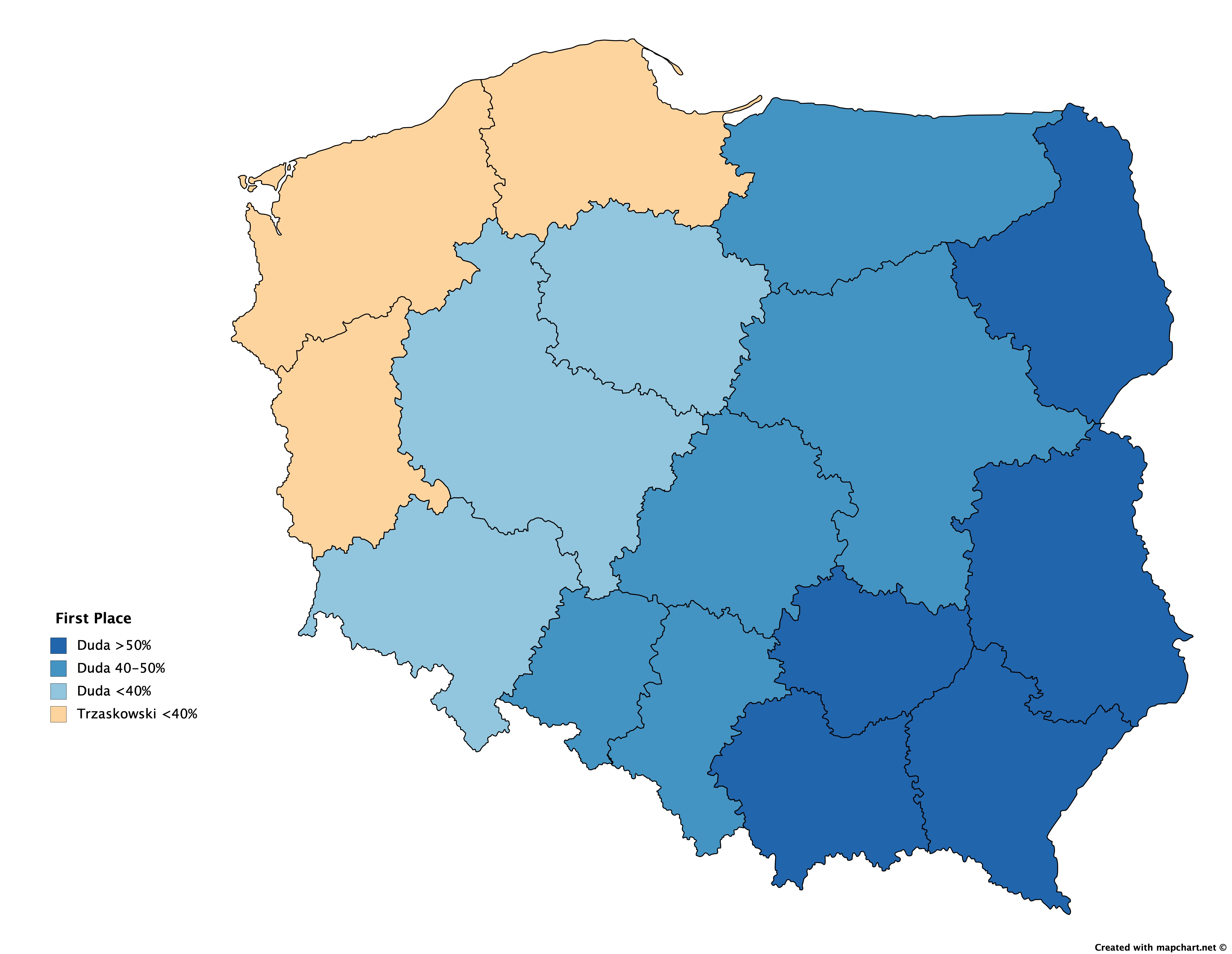 Polish presidential election 2020 results of first round by voivodeship.